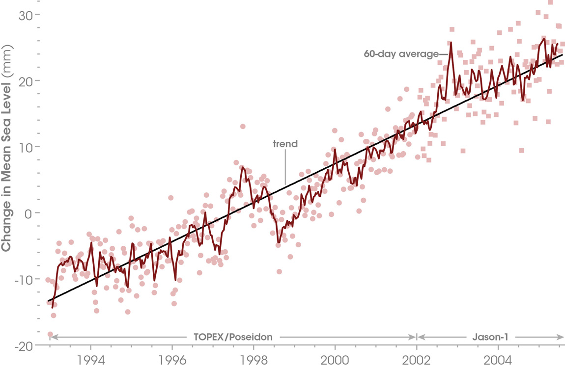 Sea Level Rise as measured by the TOPEX/Poseidon and Jason-1 satellites